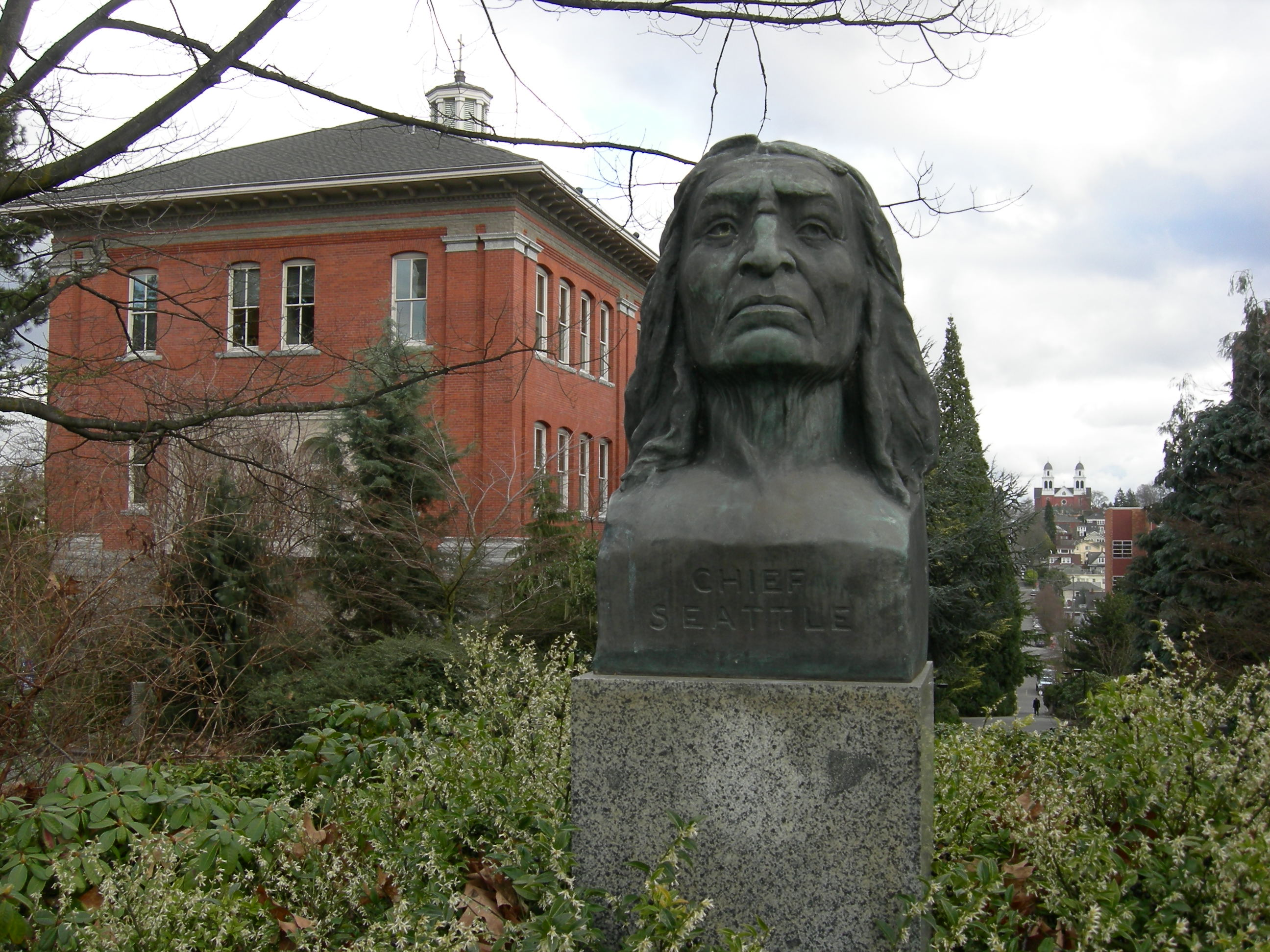 Bust of Noah Sealth (Chief Seattle), Seattle University. Garrand Hall (School of Nursing) in background at left.